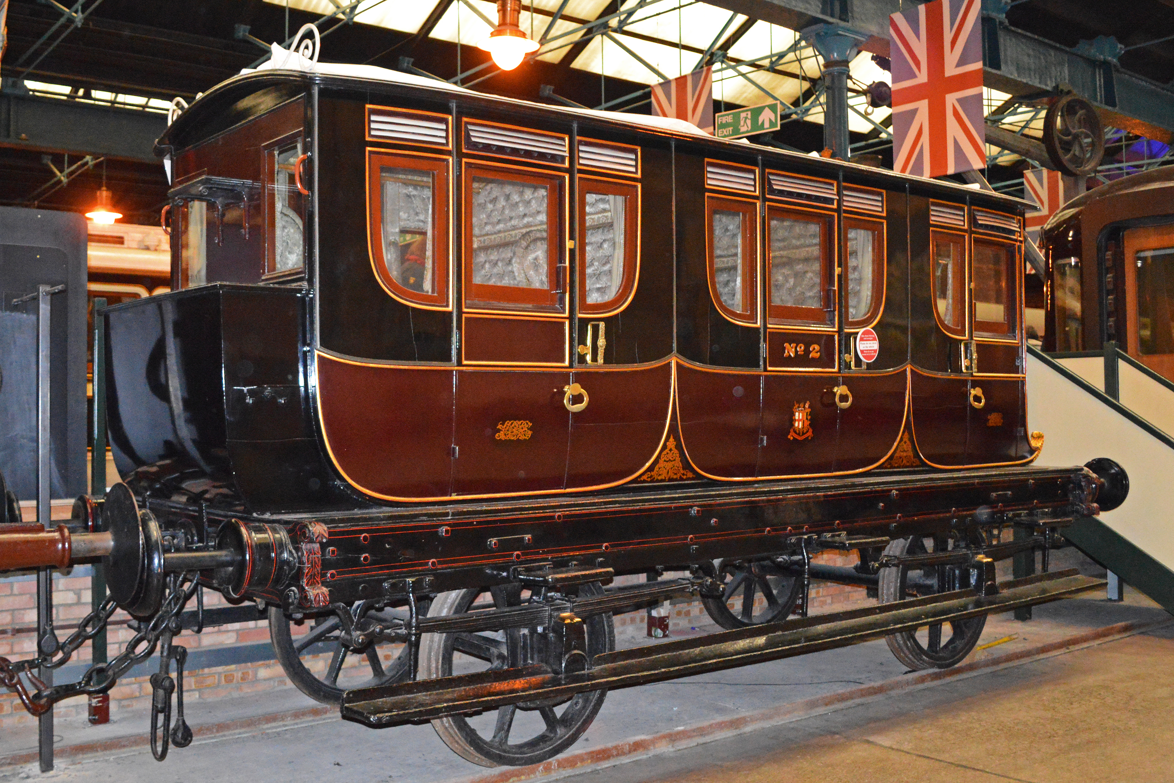 Built by the London & Brimingham Railway in 1842, exclusively for the the use of Queens Victorias aunt, Queen Adelaide. On display at the National Railway Museum, York. 22-02-2013